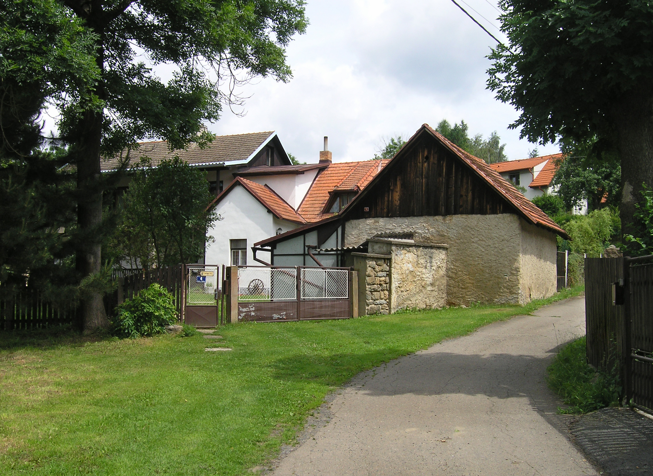 Všešímy, part of Kunice municipality, Czech Republic